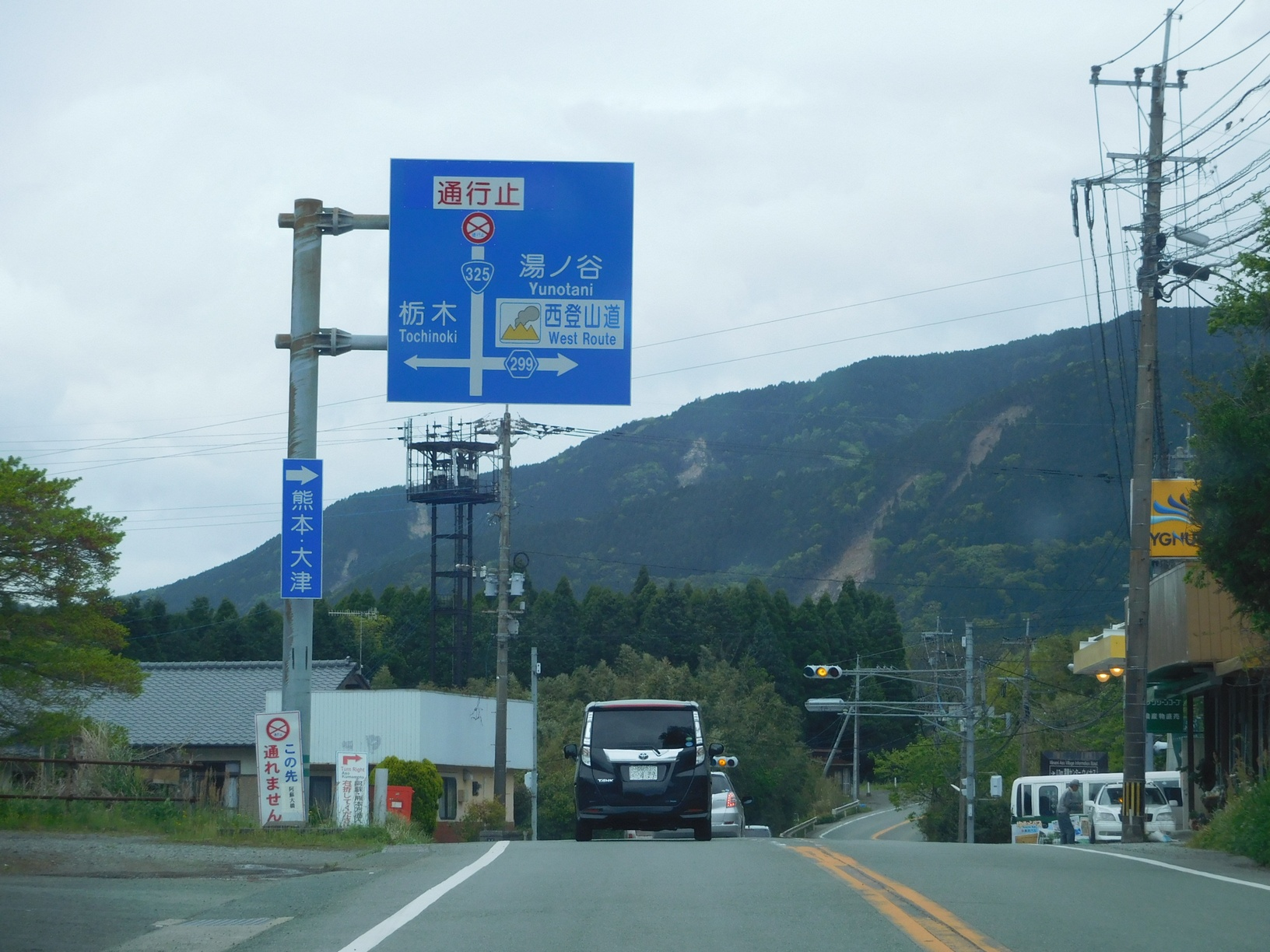 "National Route 325" at Kawayo, Minamiaso Village, Kumamoto Prefecture, Japan.